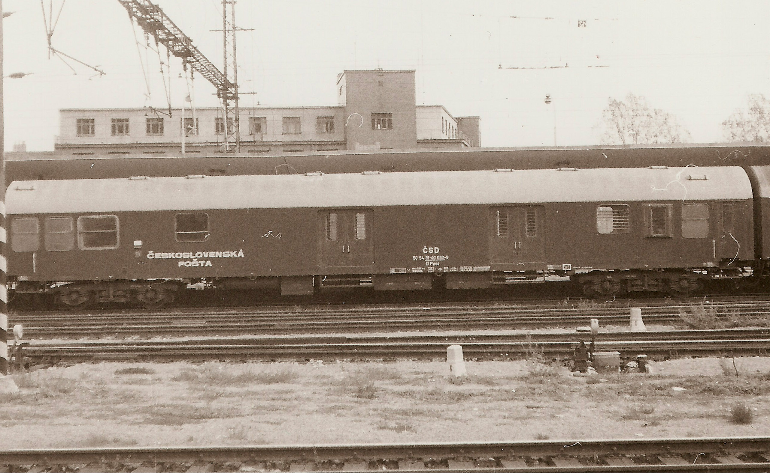 DFa/DPost ČSD made in GDR 1972